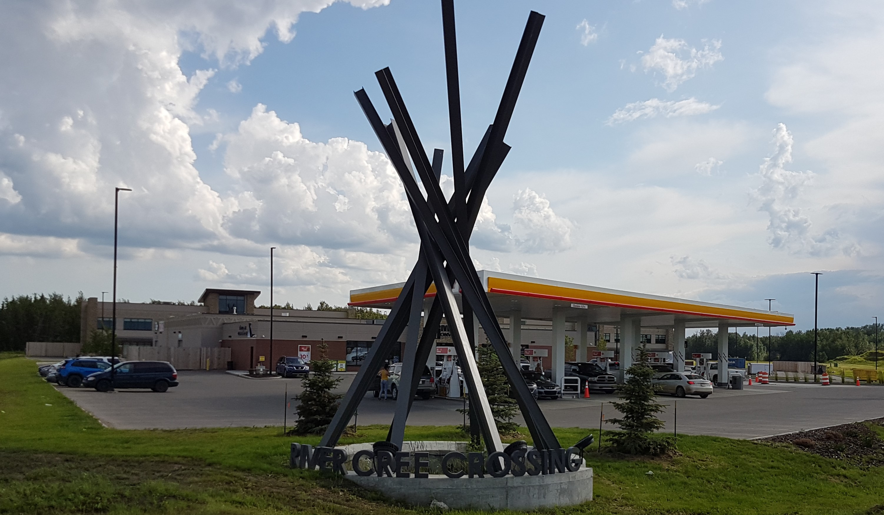 Tipi art in the River Cree Crossing shopping centre, Enoch, Alberta, Canada.